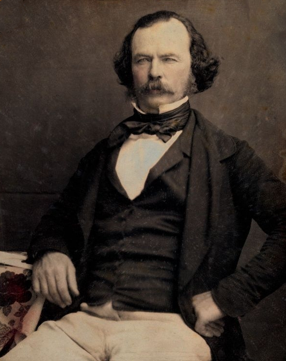 Portrait of Horatio Wills. 1/6th plate daguerreotype with applied colour in a brass matt in leather case (closed: 9.2 x 8.2 x 1.7 cm, sight: 6.7 x 5.4 cm).